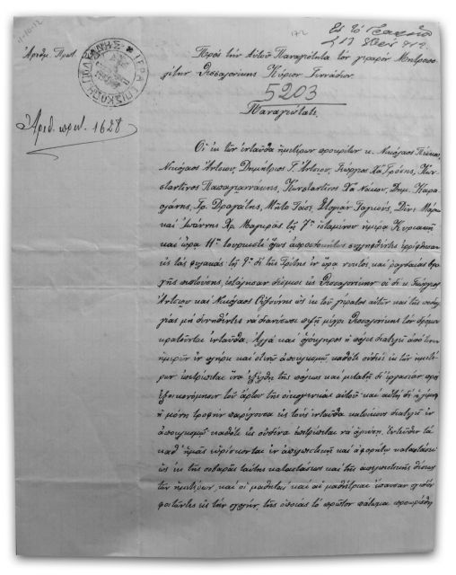 Photios Payotas Letter to Gennadios of Thessaloniki.